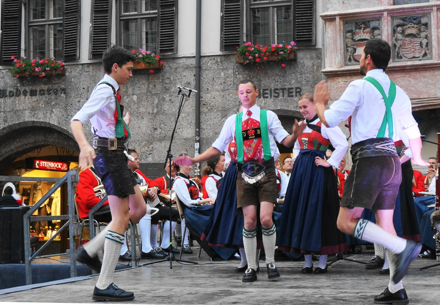 Folklore dance group from Absam, district Innsbruck Land, Tyrol, Austria, Europeen Union